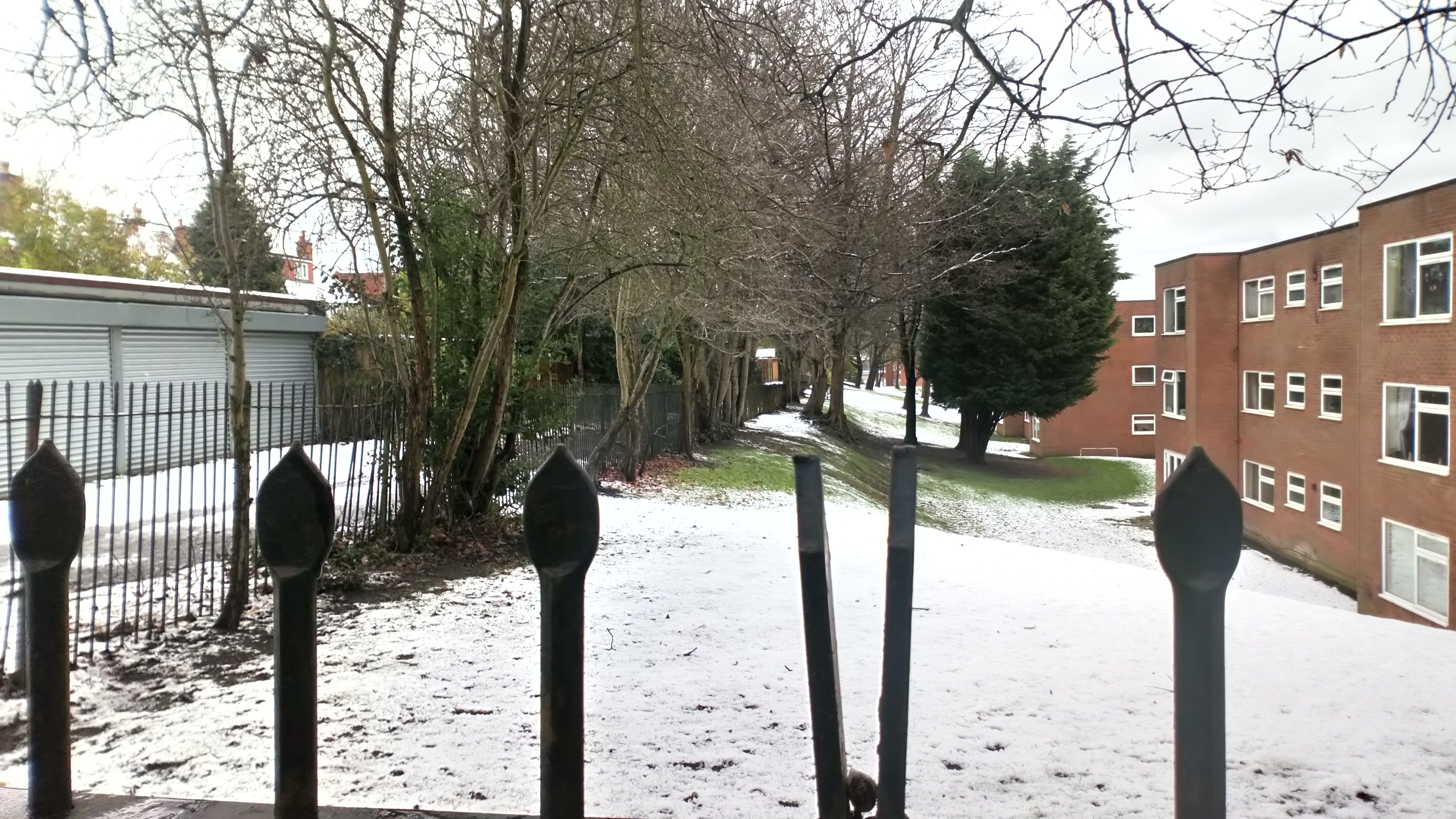 My own.